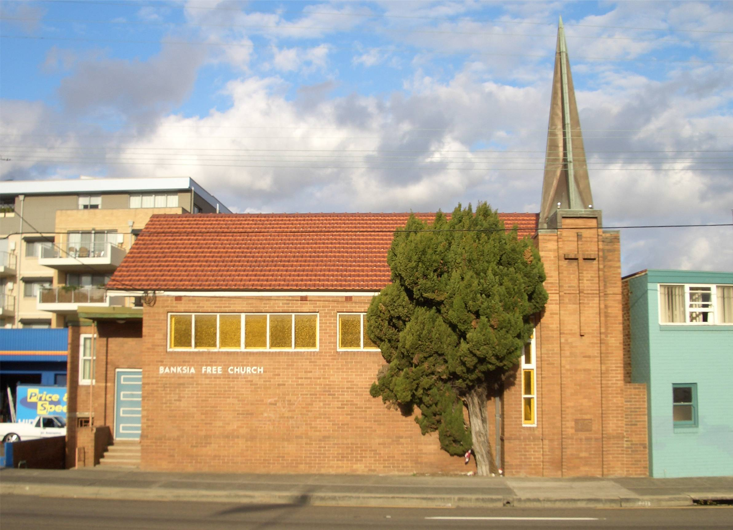 Banksia, Sydney, Australia. 28th August 2006.